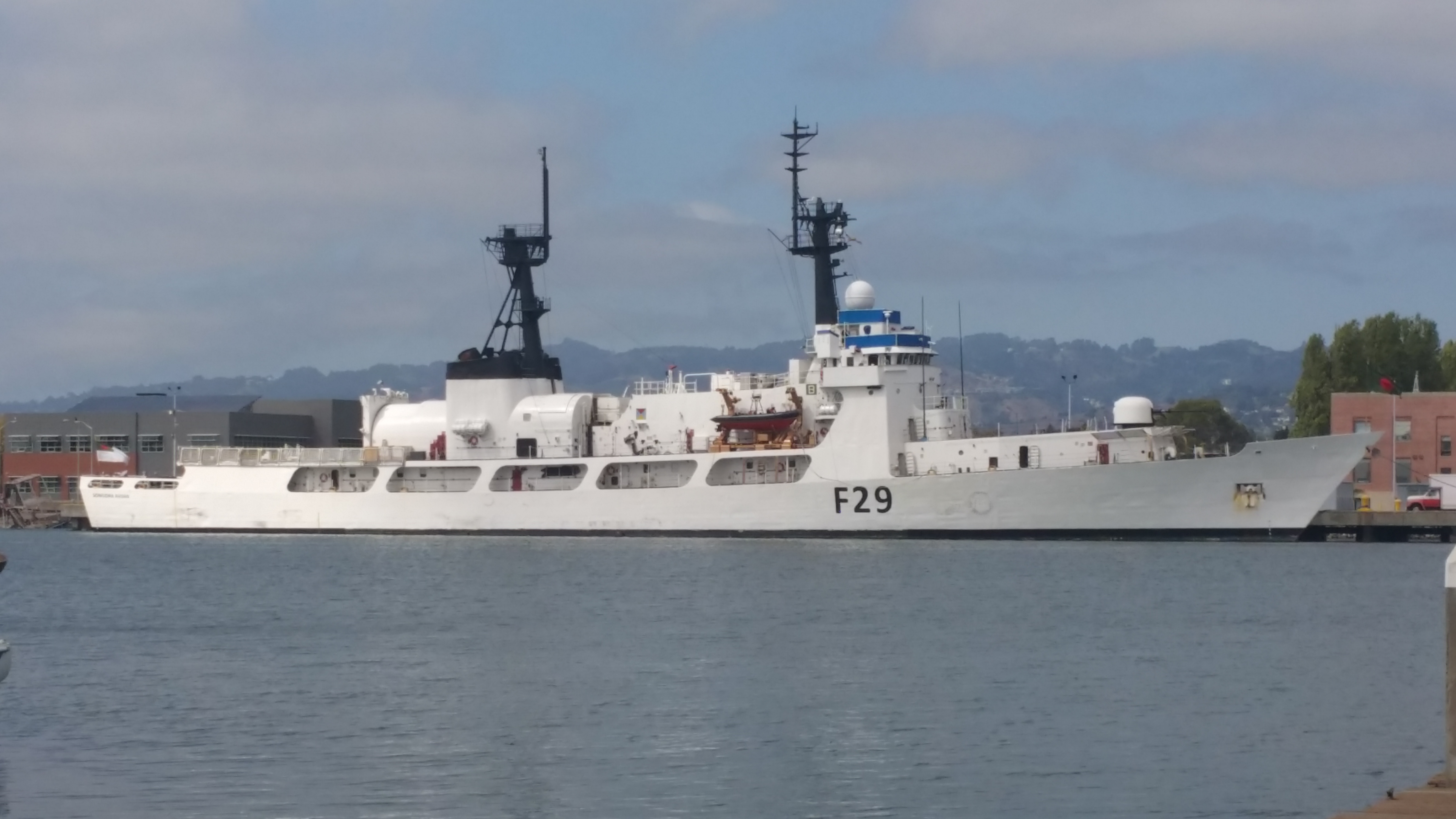 The new Bangladeshi flagship BNS Somudra Avijan moored at USCG Alameda station. After being transfered to the Bangladeshi Navy her crew trained alongside the USCG to familiarize themselves with the ship